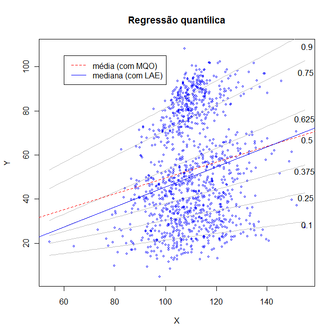 quantile regression